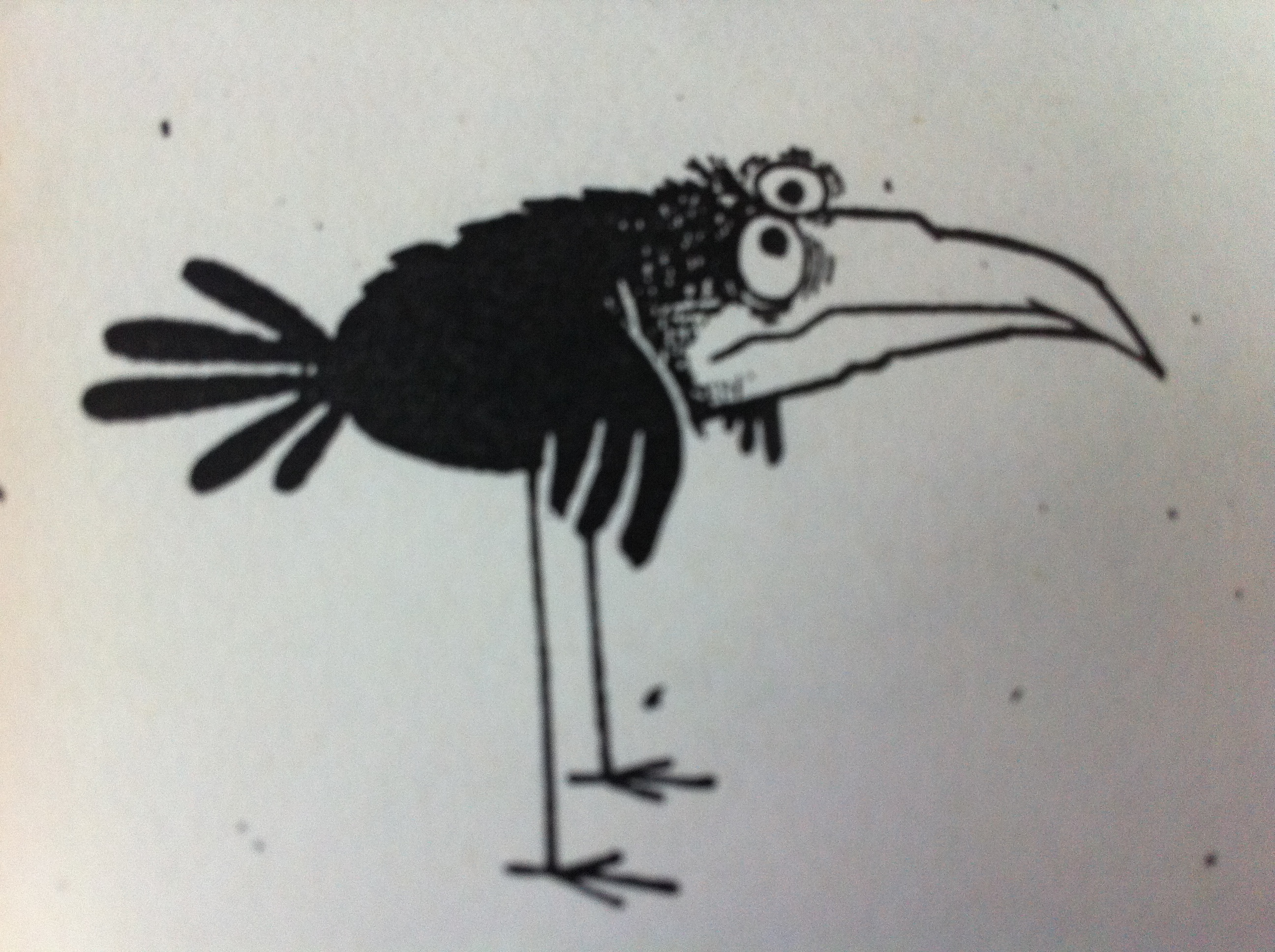 Mahmoud Kahil Signature crow drawing